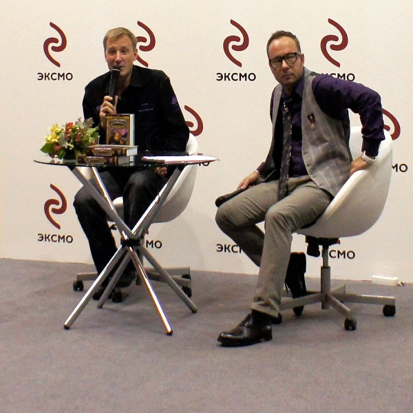 Moscow International Book Fair 2011. Speaker at Eksmo booth.